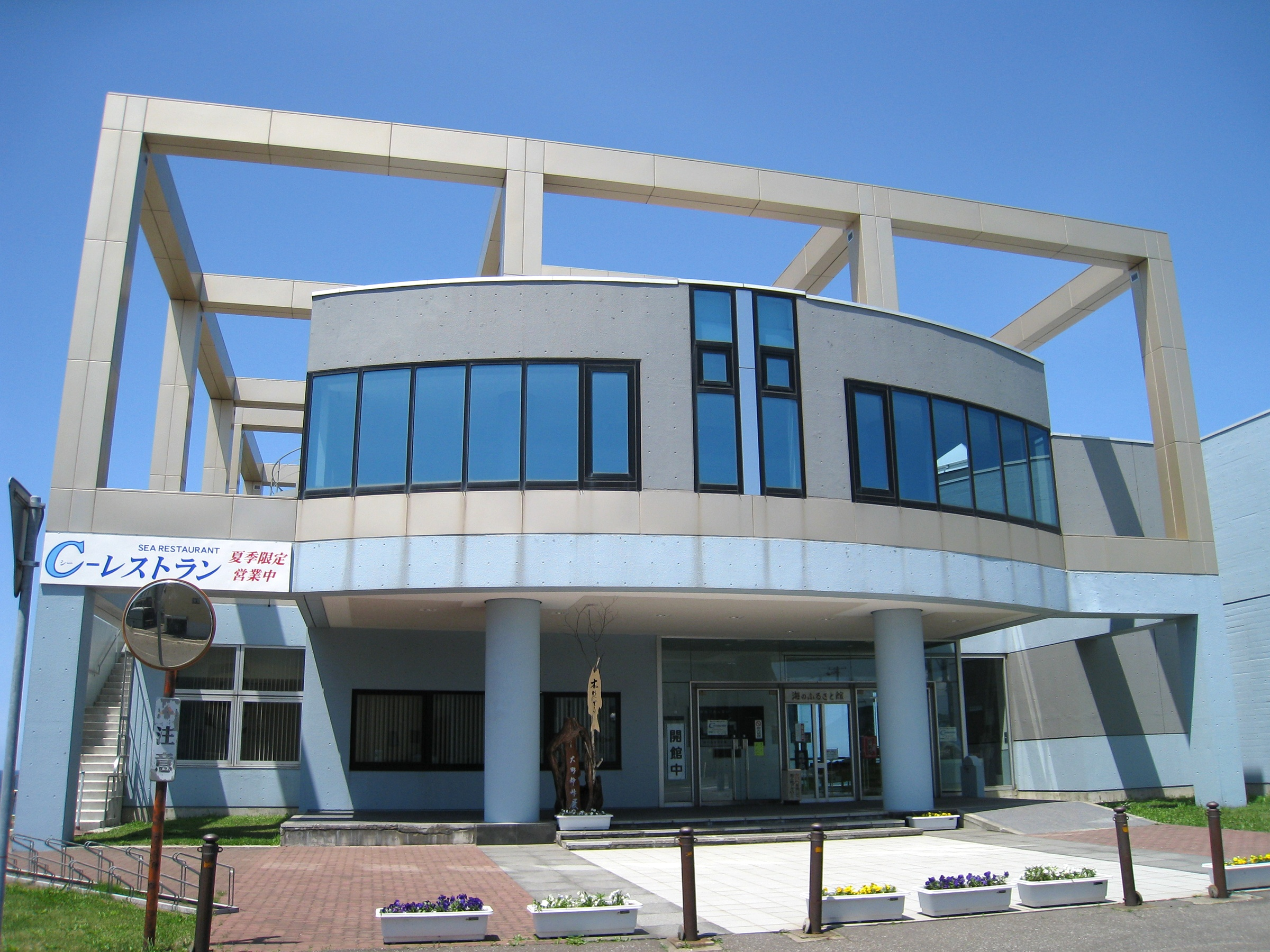 Rumoi City Ocean Museum, This photo taken in June 15, 2008